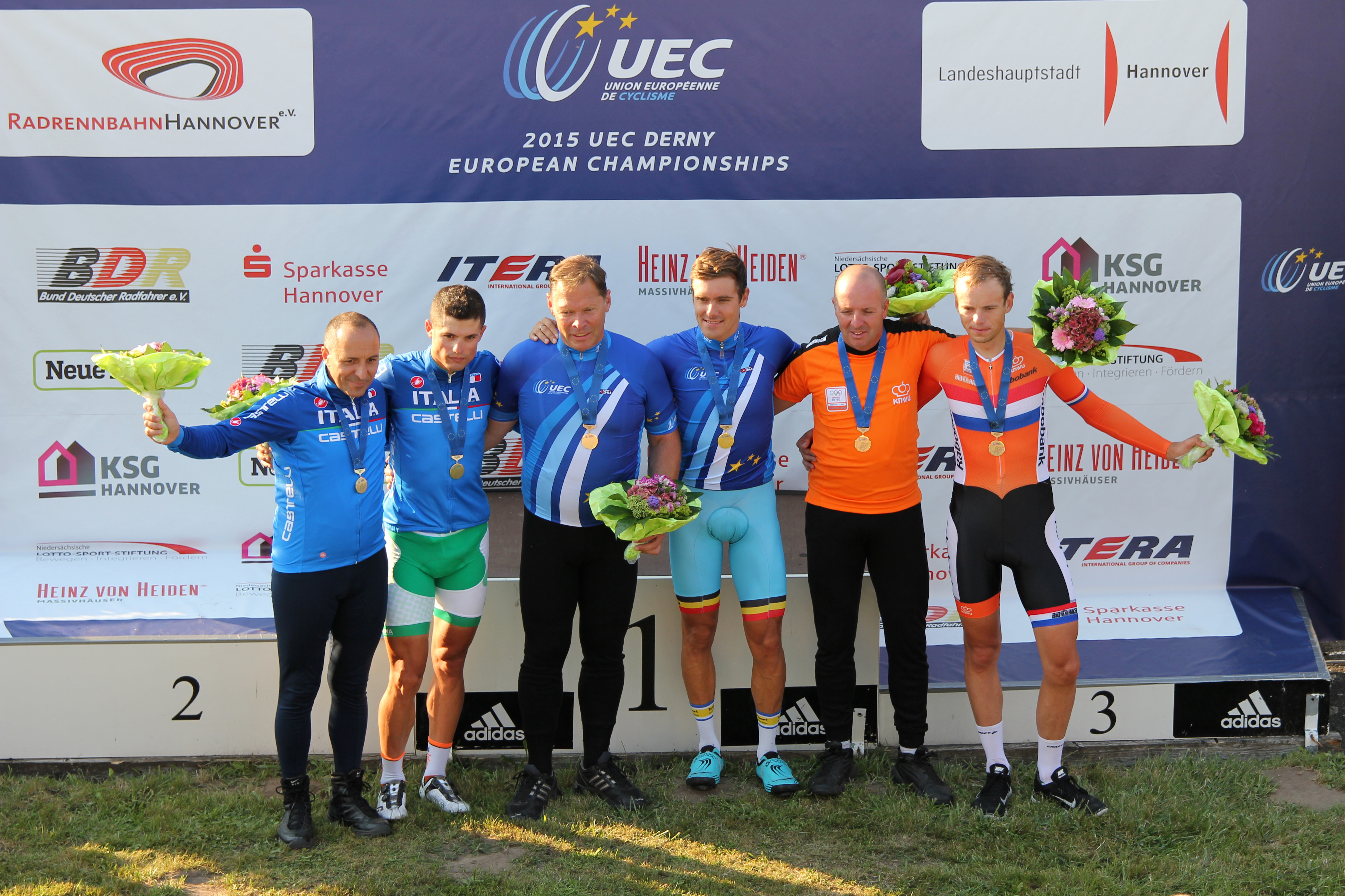 UEC Derny European Championship 2015 - Finals place 1 - 9, 120 laps / 40 km, f.l.t.r. Cordiano Dagnoni (Italy), Davide Viganò (Italy), Michel Vaarten (Belgium), Kenny De Ketele (Belgium), Herman Bakker (Netherlands), Jesper Asselman (Netherlands)